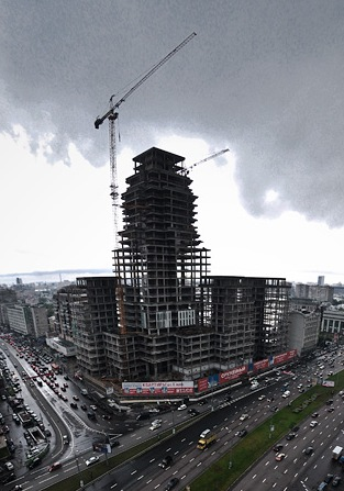 Oruzheiny Complex Tower is U/C in Moscow,120 m,27 fl